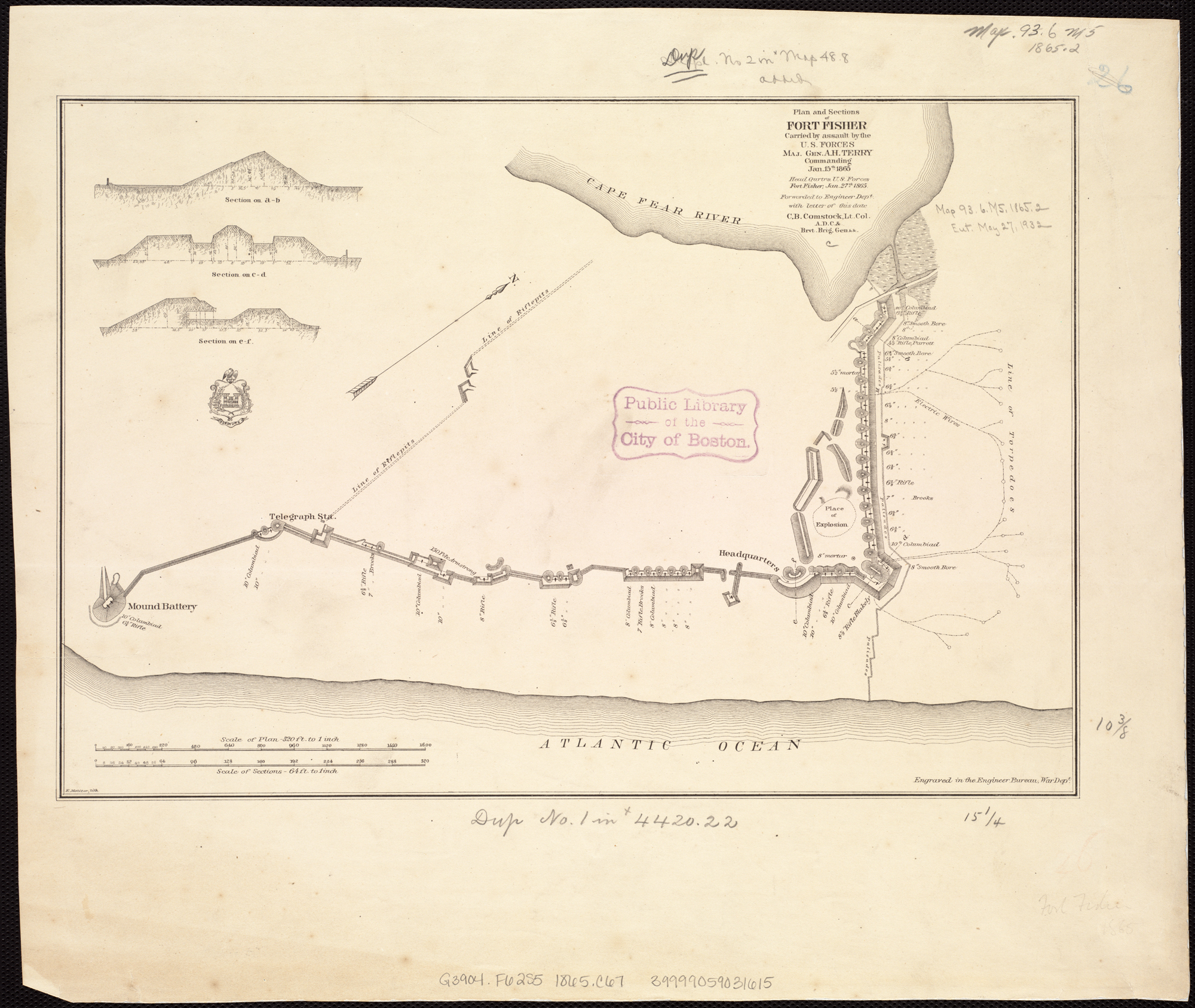 Zoom into this map at . Author: Comstock, Cyrus Ballou Publisher: United States. War Dept. Engineer Dept. Date: 1865 Location: Fort Fisher (N.C. : Fort) Dimension: 27x39cm Scale: [1:3,840] Call Number: G3904.F62S5 1865 .C67